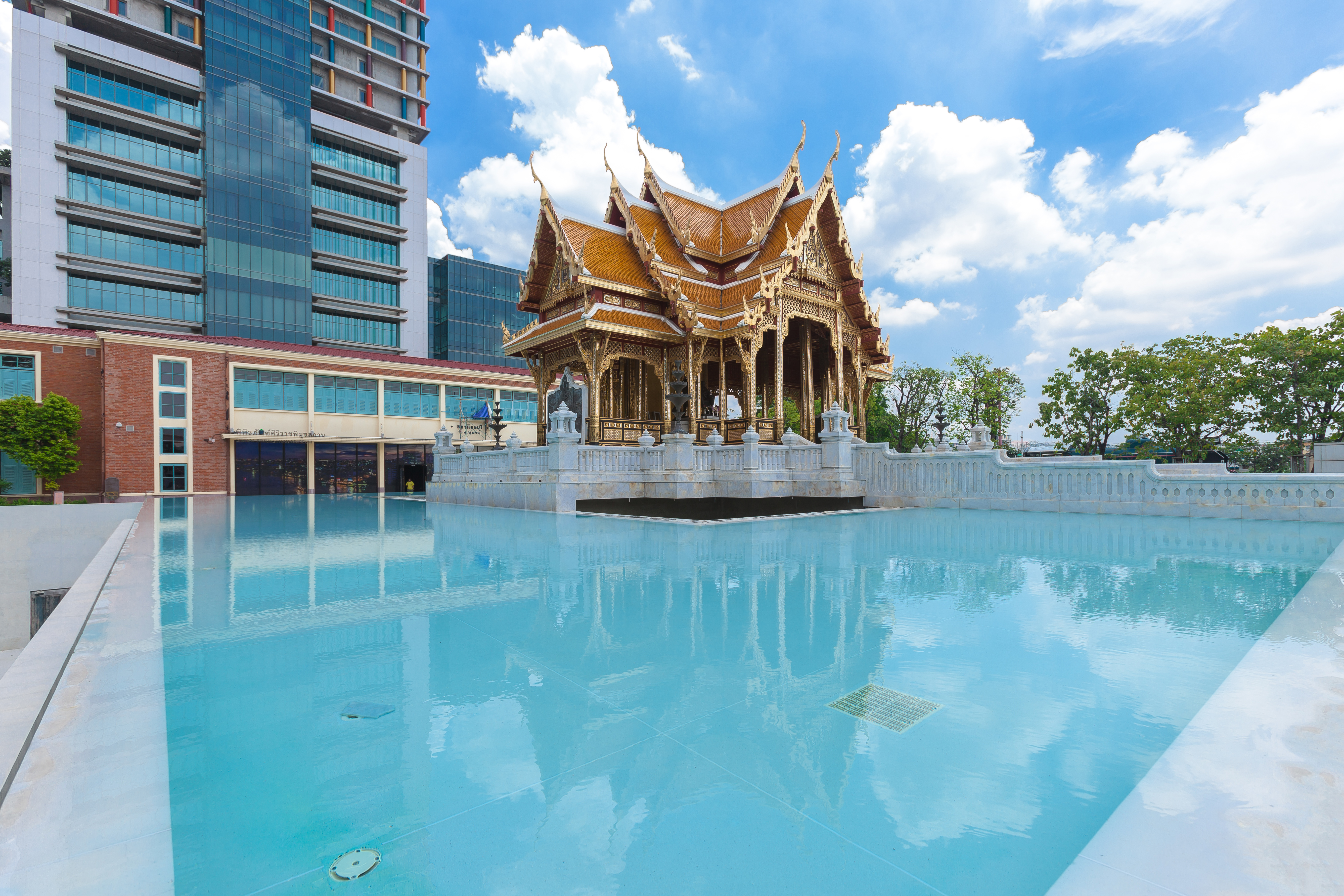 The Thai traditional style Pavilion in Siriraj Bimuksthan Museum, Bangkok.